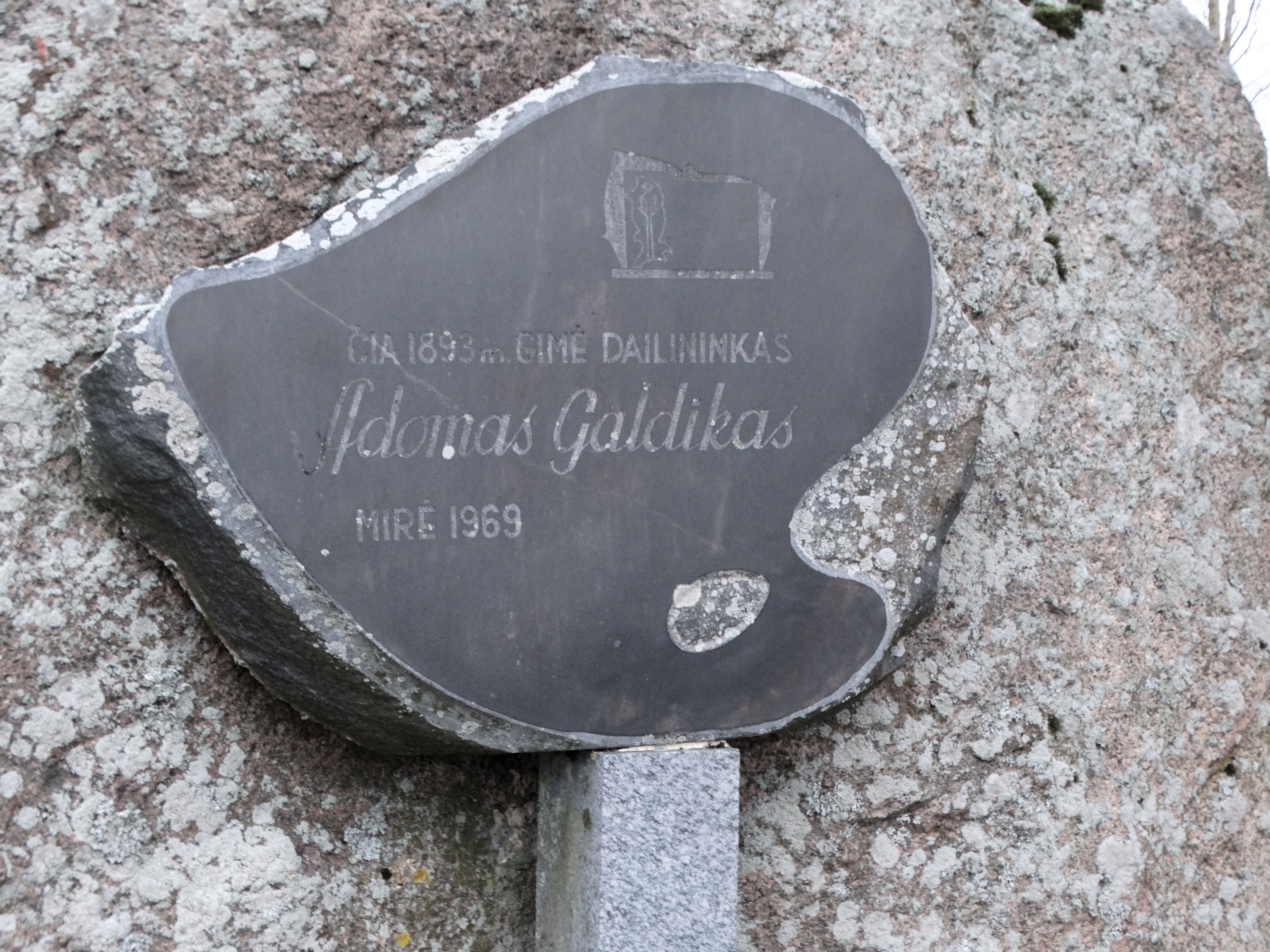 Adomas Galdikas, Giršinai, Skuodas District, Lithuania